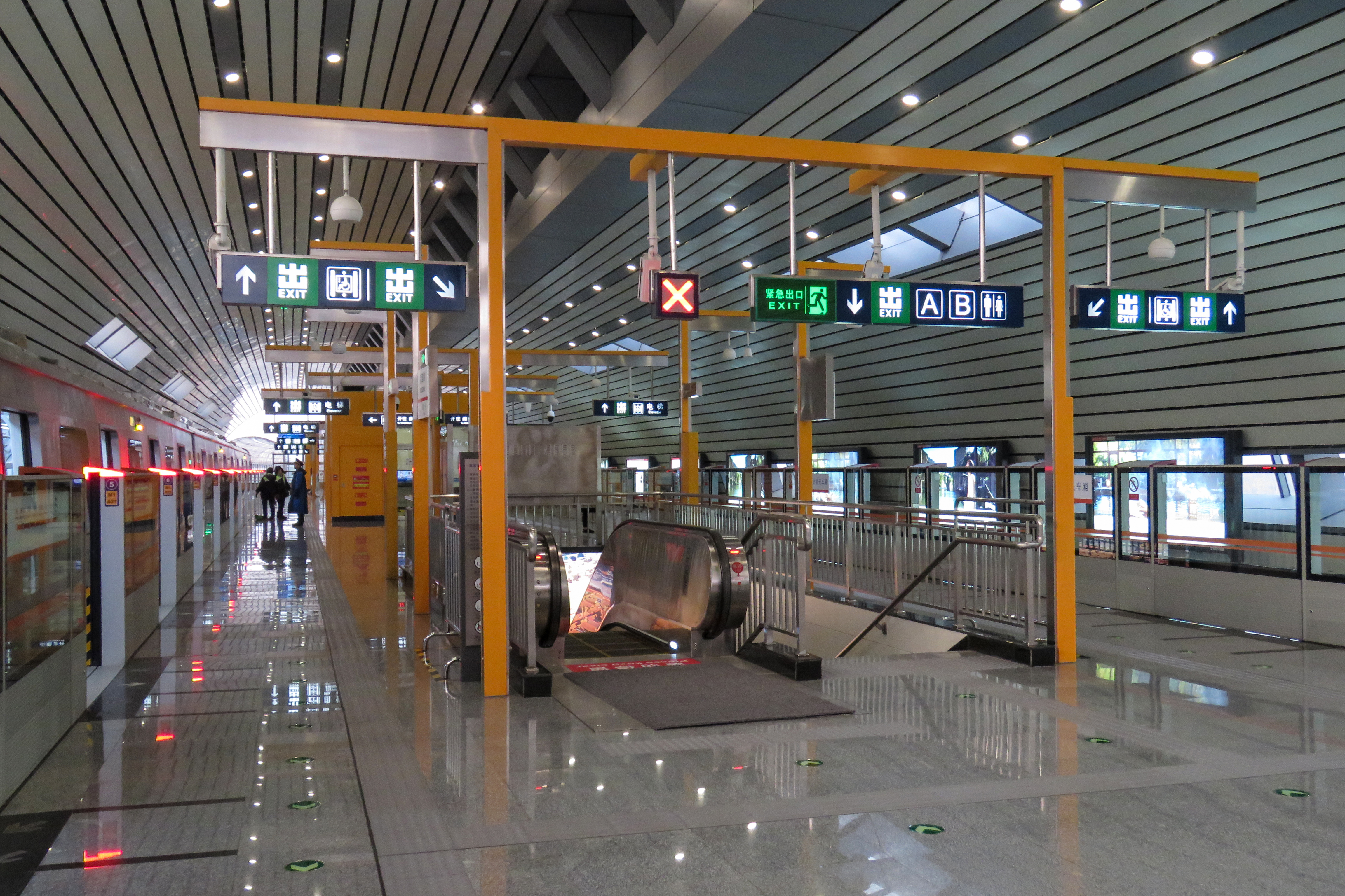 Doubtful with its accessibility. Most stations of Yanfang Line has "torii"s without nuki - at the entrance of escalators.